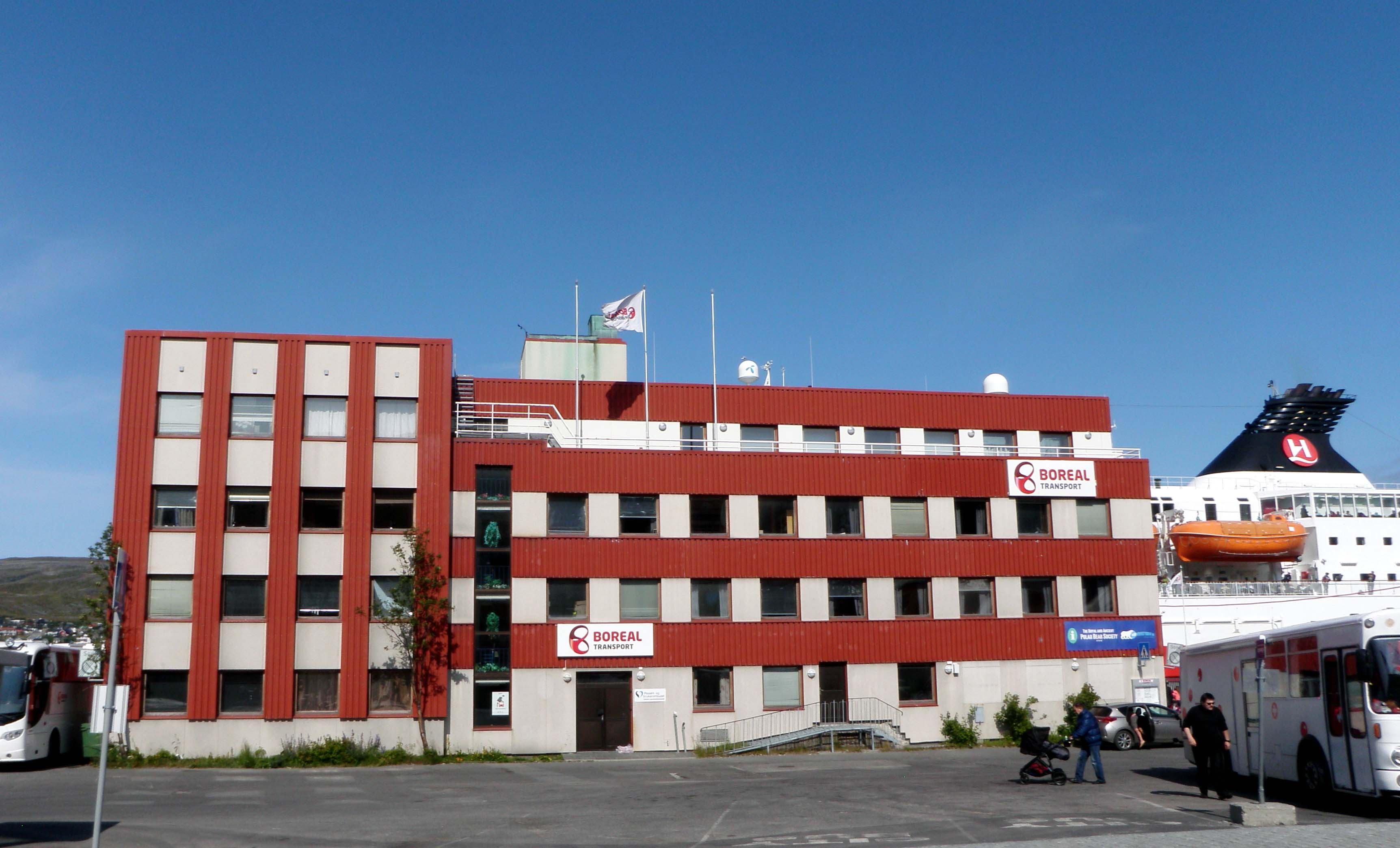 The headquarters of the transport company Boreal Transport Nord, in the harbour area of Hammerfest, Norway. The Royal and Ancient Polar Bear Society and the local tourist information centre is located in the right side of the building. In the background to the right is the Hurtigruten cruise ferry MS Nordkapp